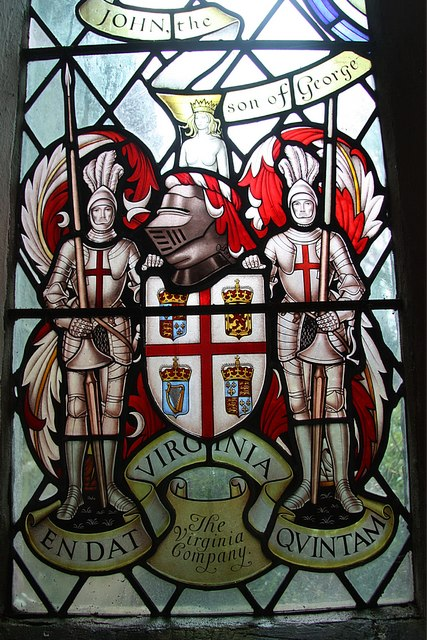 Arms of the Virginia Company Detail from the John Smith window in St.Helena's church